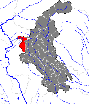 This map shows the area of the Gemeinde (municipality) Fladnitz an der Teichalm in the Bezirk (district) Weiz, Styria, Austria.